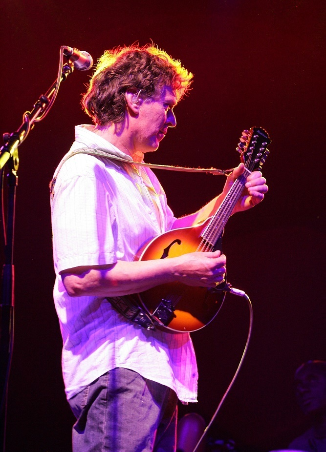 Steve Winwood in concert at the Chumash Casino Resort in Santa Ynez, California.